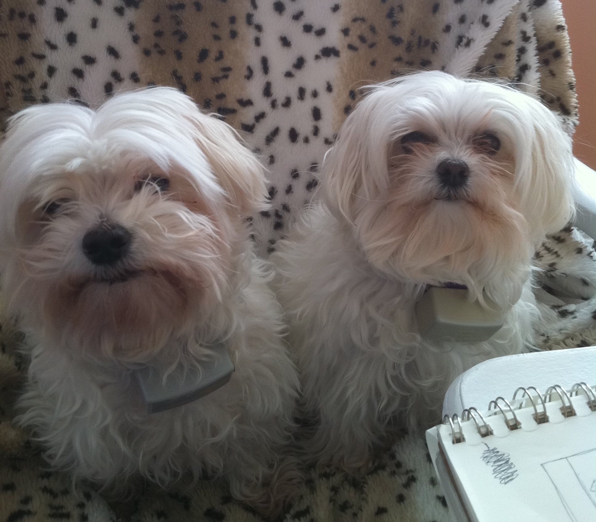 Two Maltese dogs sitting on a chair, the left is aged 9 years old and the right is aged 5 years old.